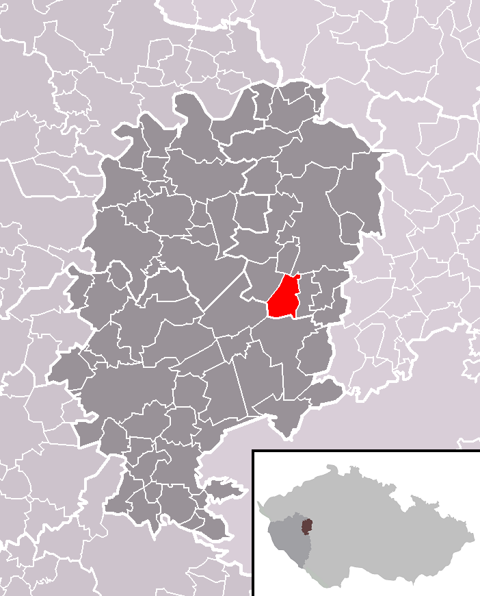 Location of Cekov municipality within Rokycany District and within identical administrative area of Rokycany as a Municipality with Extended Competence.